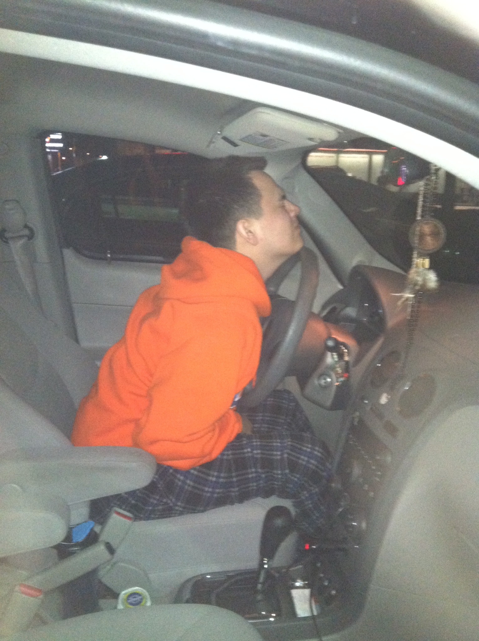 This is a demonstration of how your chin can hit the steering wheel and cause hyperextension of the neck. It is clear that he is not wearing a seatbelt. Safety comes first. Always wear a seatbelt whether you are the driver or passenger